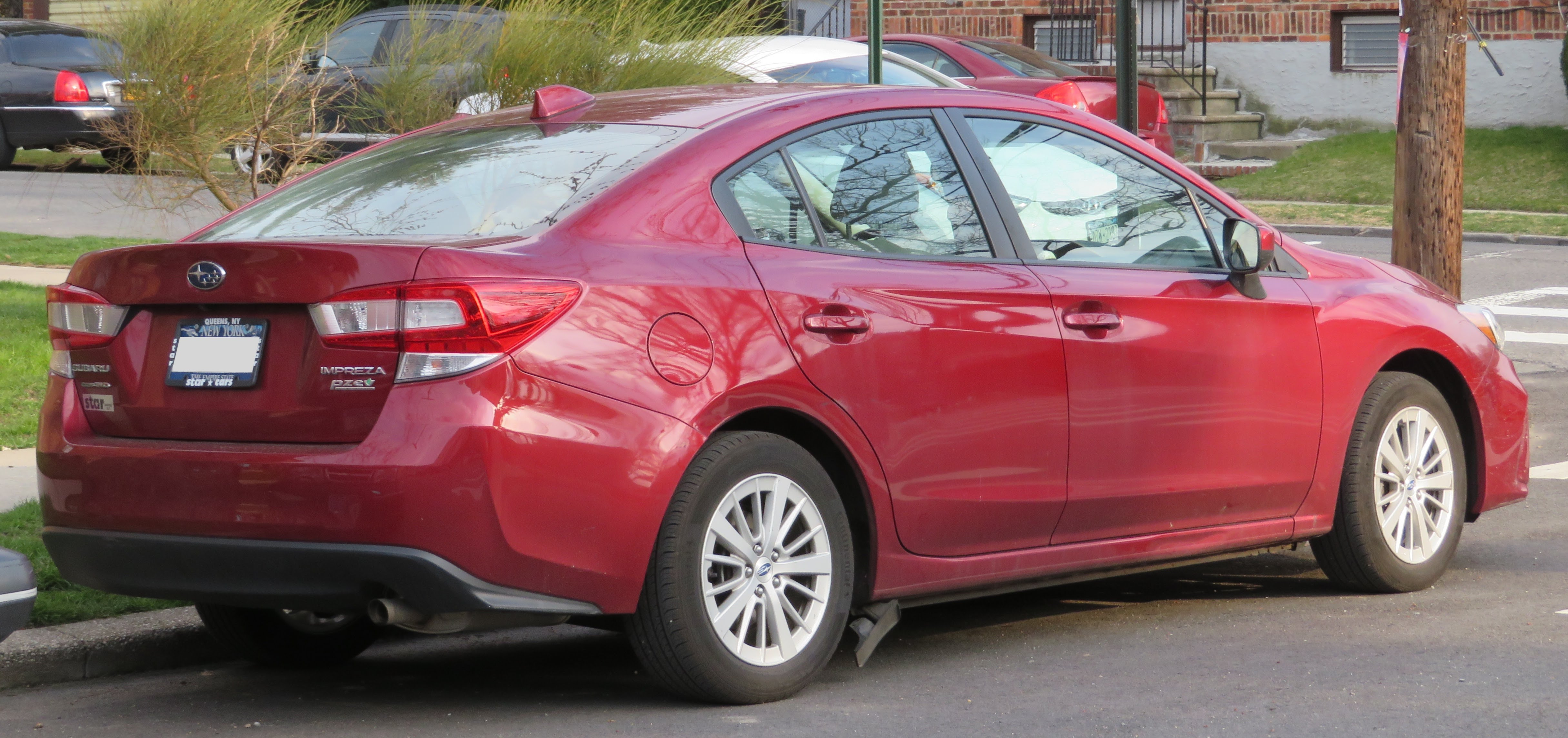 In Queens, New York